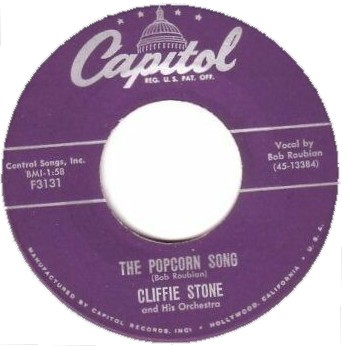 The Popcorn Song by Cliffie Stone and his Orchestra (vocals by Bob Roubian), Capitol Records 1955.